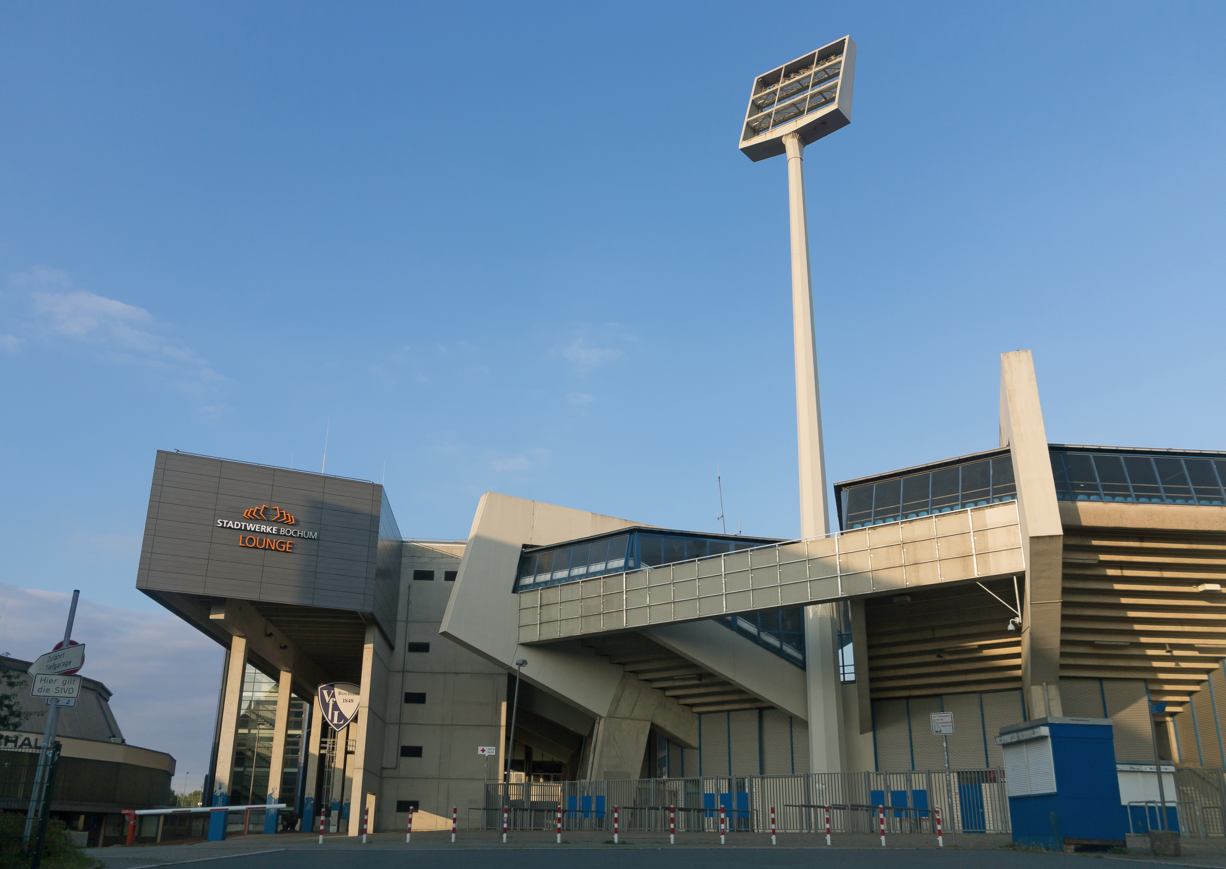 Bochum-Grumme, stadium Vfl Bochum: das Vonovia Ruhrstadion